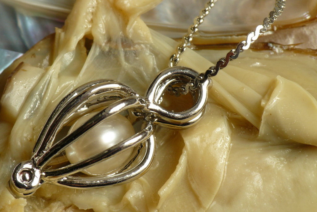 Pearls